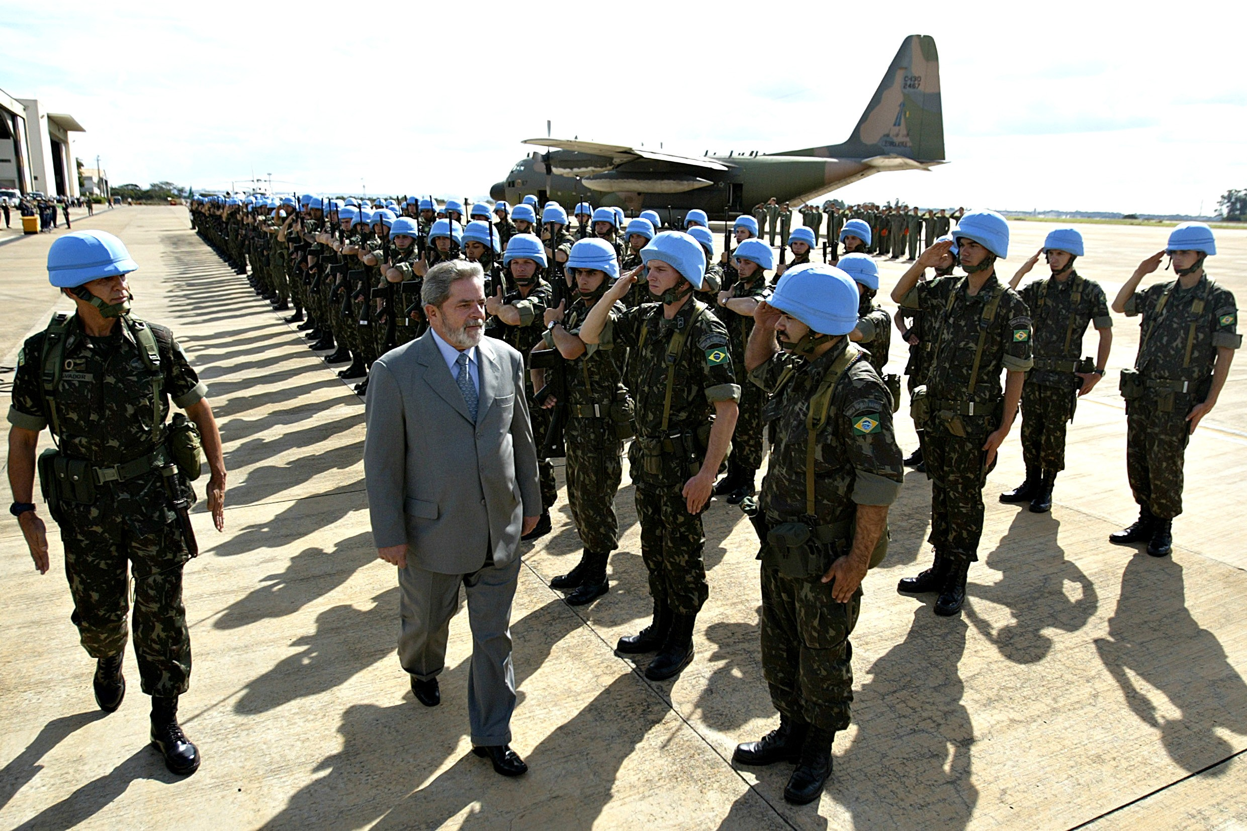 Brazilian Army soldiers, part of the United Nations Stabilization Mission in Haiti